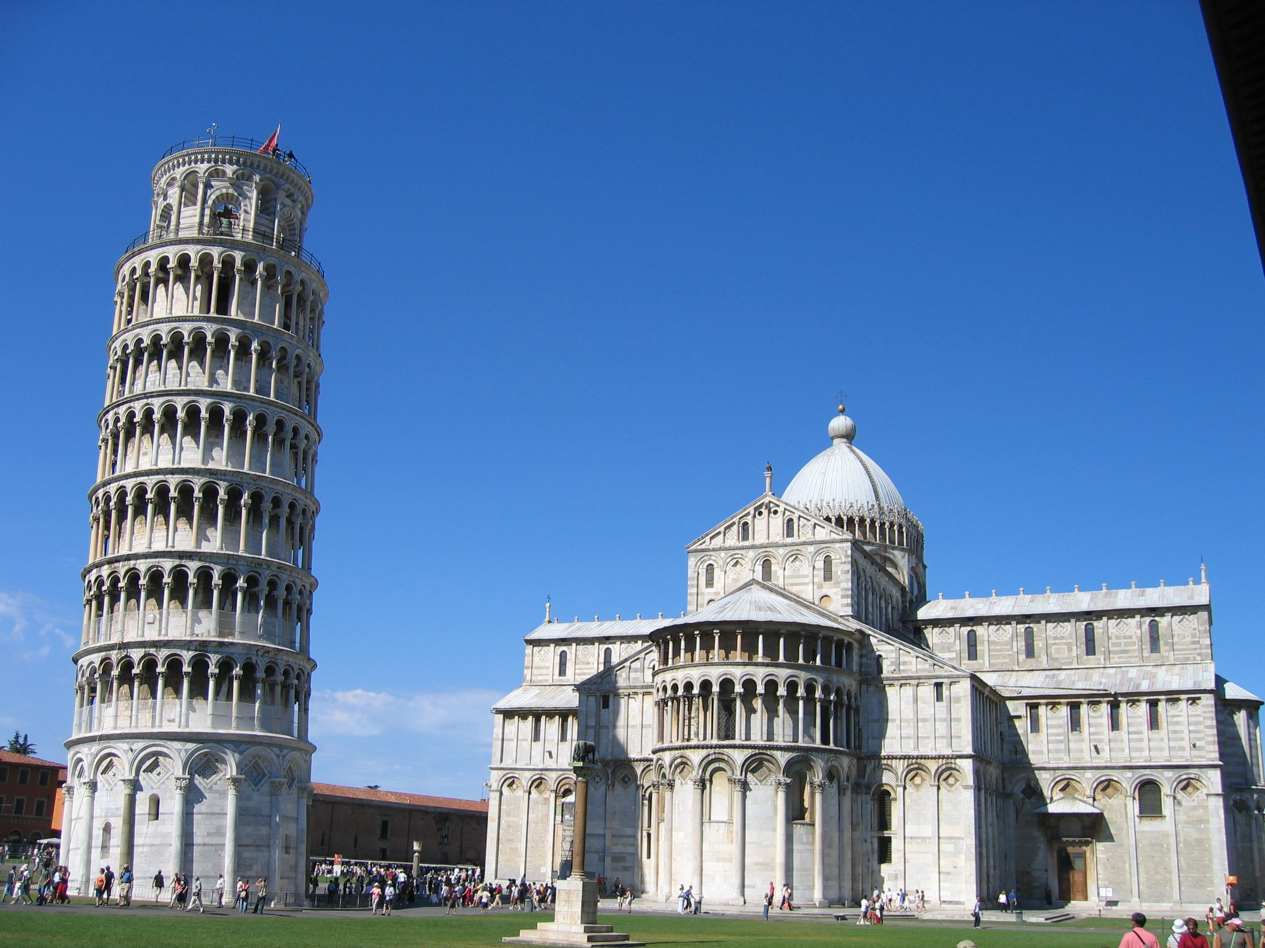 Leaning Tower of Pisa